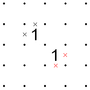 Diagonal adjacent 1s outer